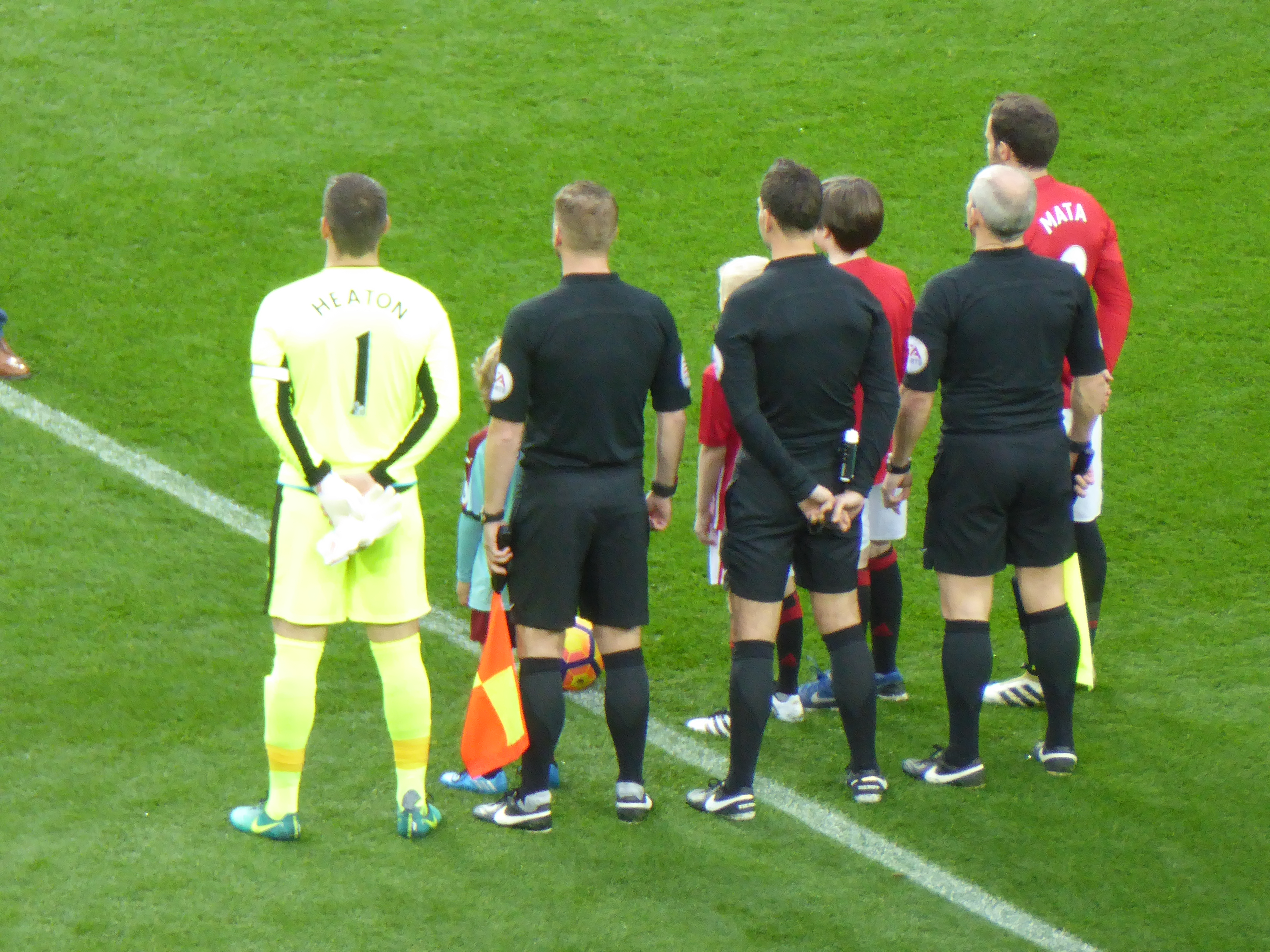 Manchester United v Burnley (0-0), Premier League, Old Trafford, Manchester, Greater Manchester, England, October 2016